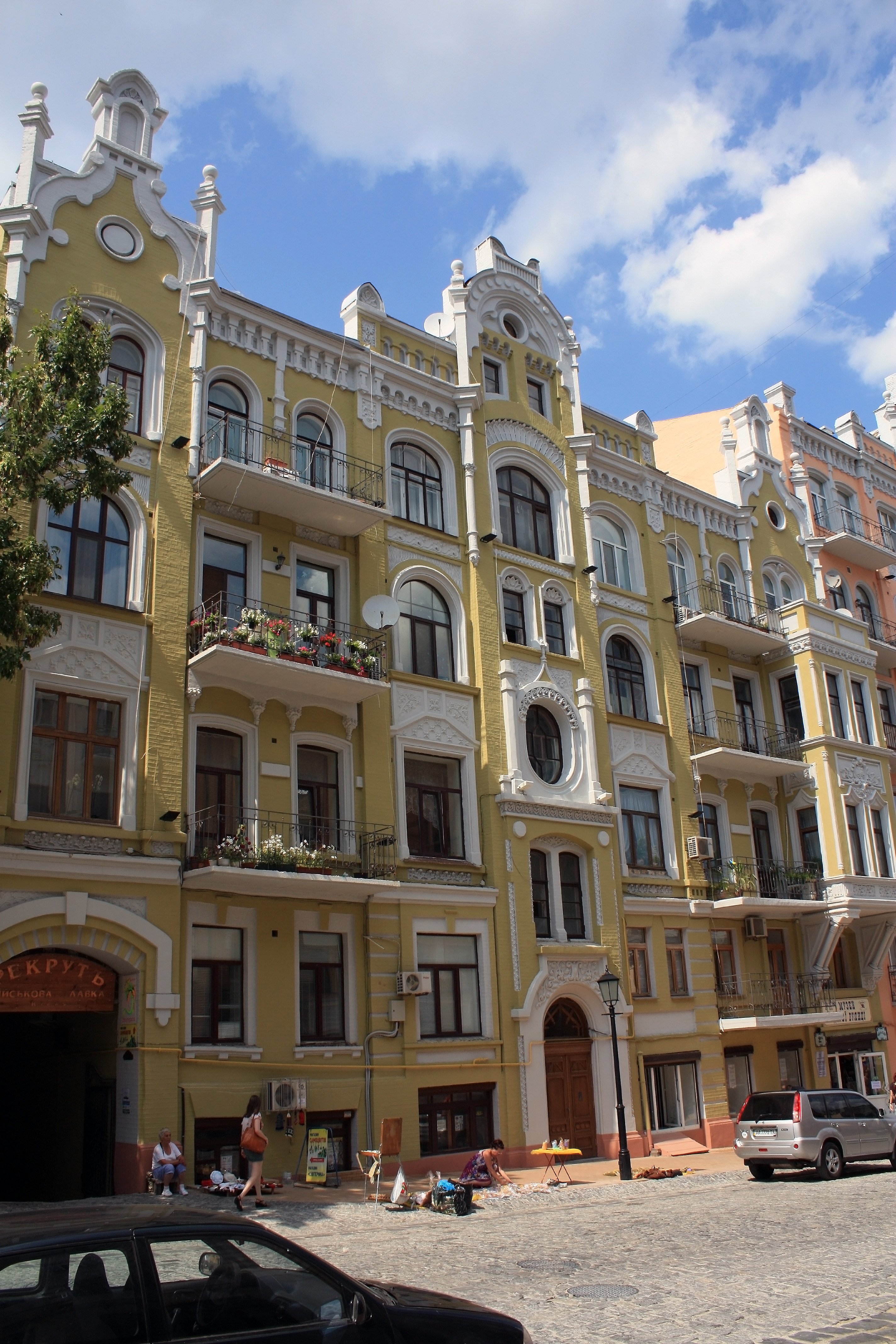 Kiev, Andriivskiy descent, 2-v